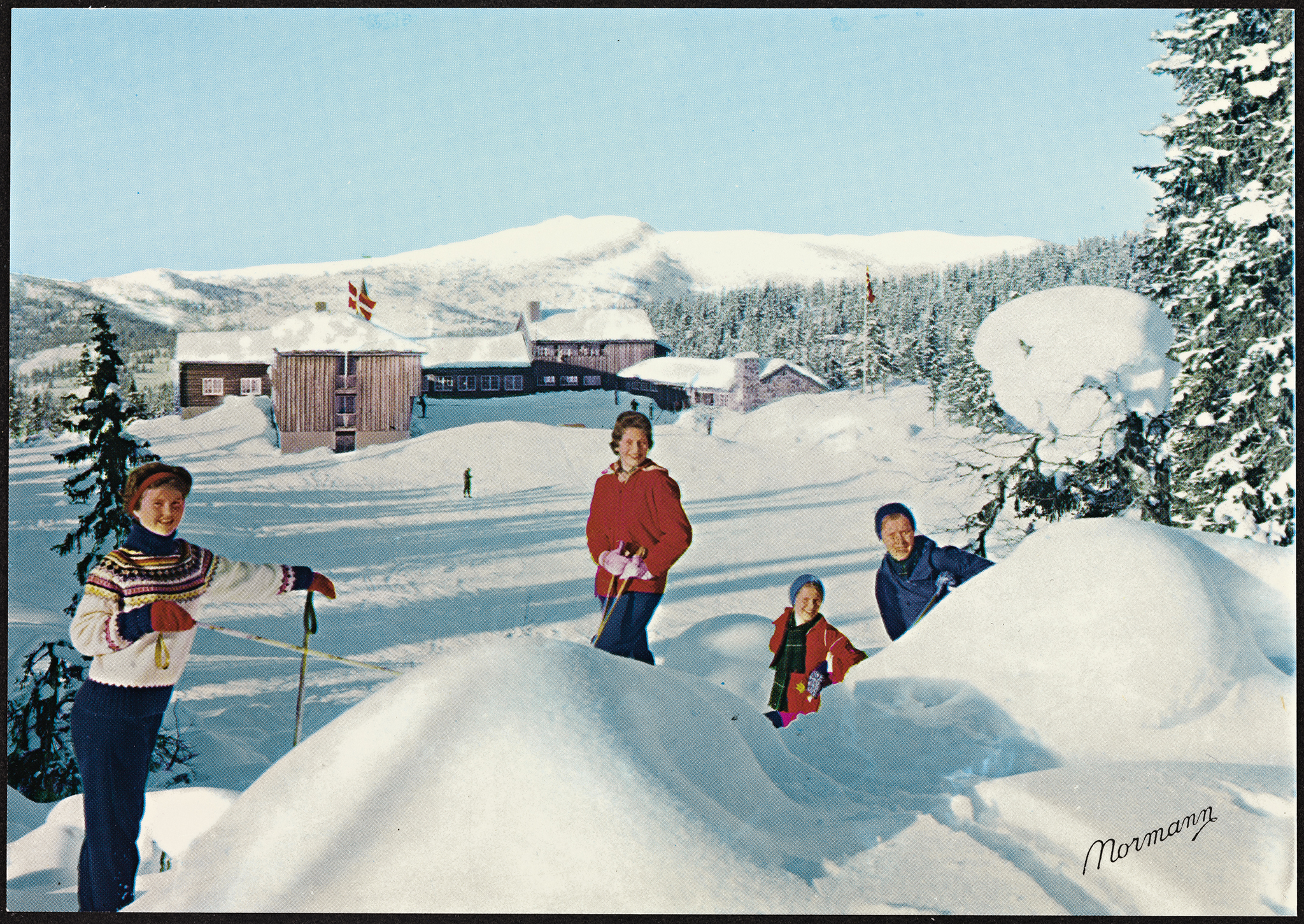 Tittel / Title: G-32-9 Norge: Danebu, Aurdal. Valdres Beskrivelse / Description: Postkort / postcard. Dato / Date: ca 1965 Fotograf / Photographer: Normann Utgiver / Publisher: Normanns kunstforlag AS Sted / Place: Oppland, Nord-Aurdal, Danebu Eier / Owner Institution: Nasjonalbiblioteket / National Library of Norway Lenke / Link: Bildesignatur / Image Number: blds_05867